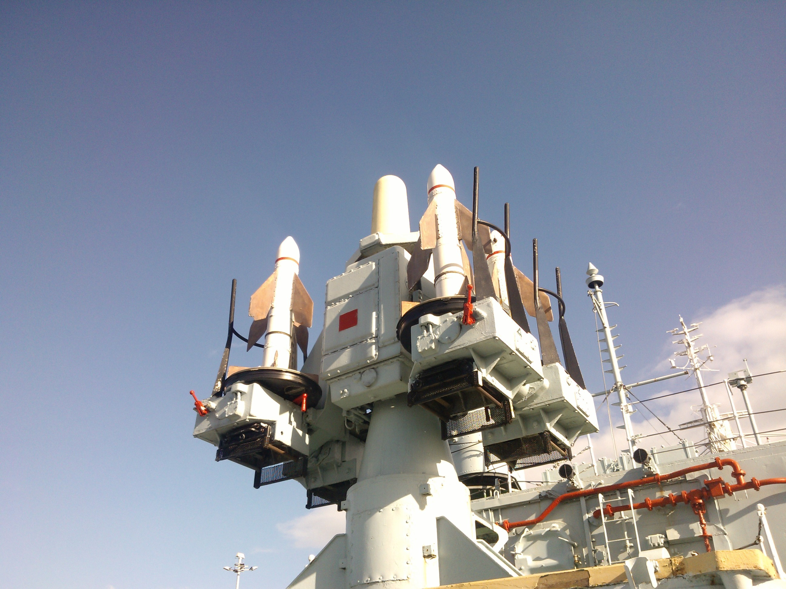 GWS20 Seacat launcher on HMS Cavalier